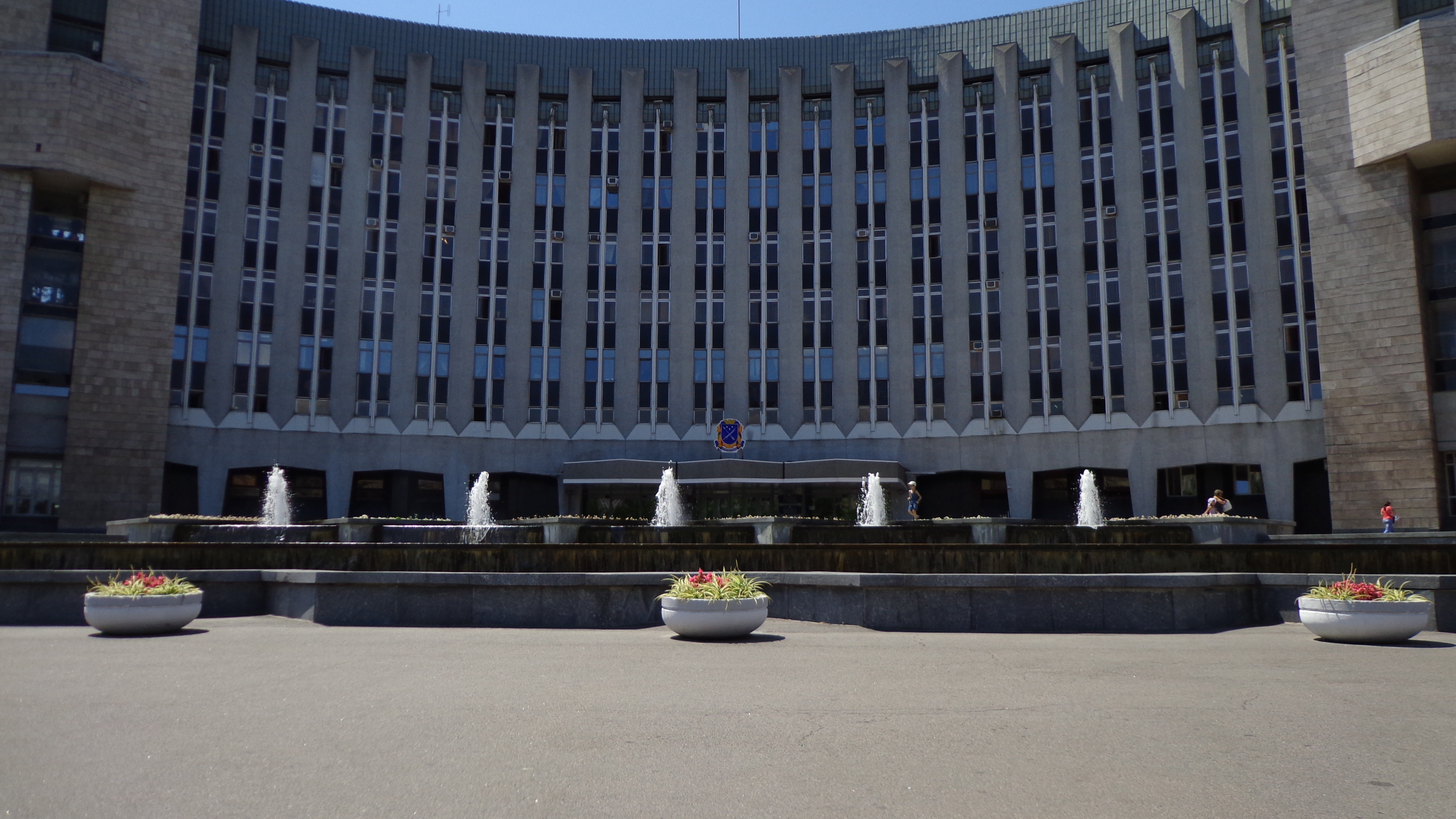 Dnipropetrovsk City Council